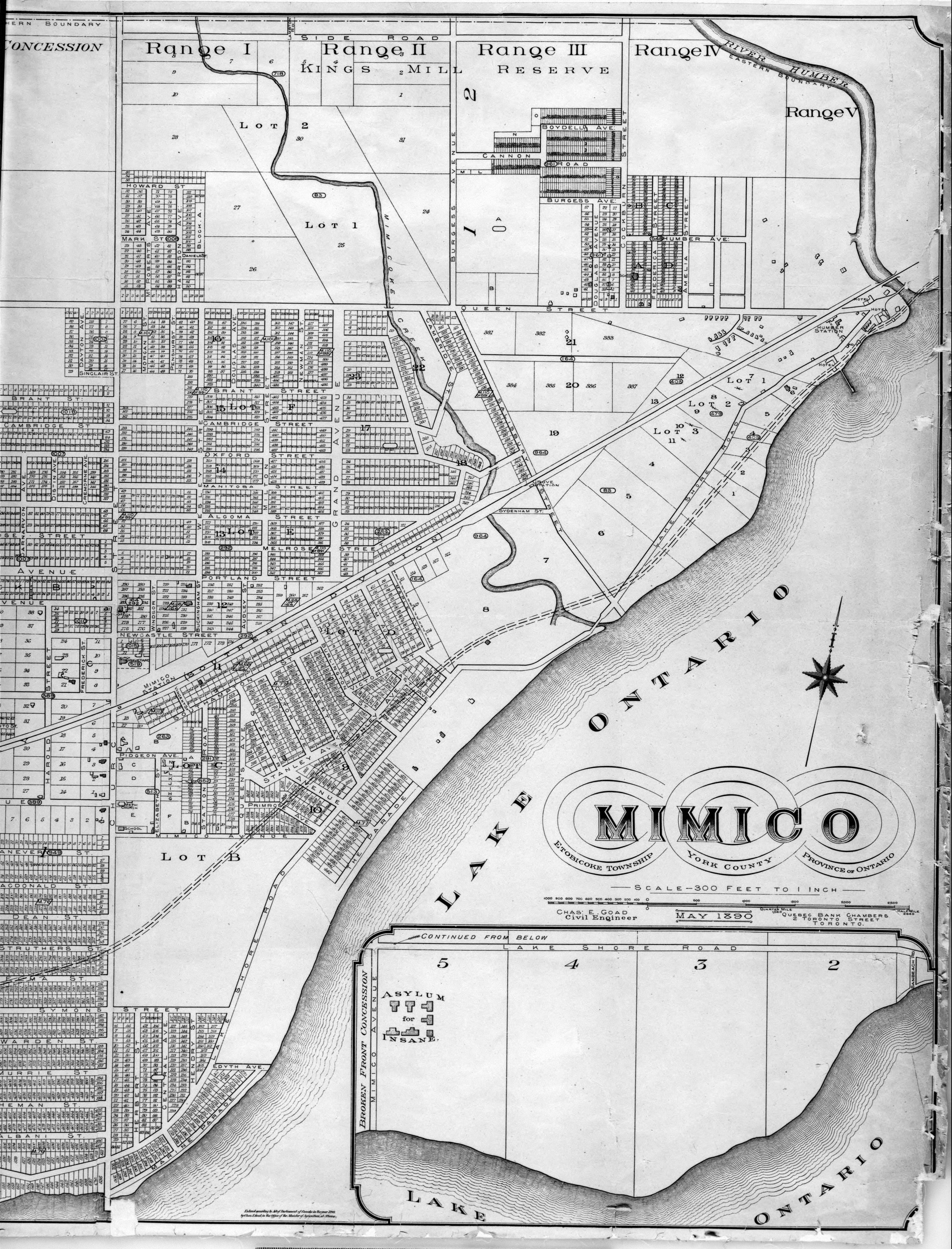 Chas. E. GOAD Plan of Mimico (1890)